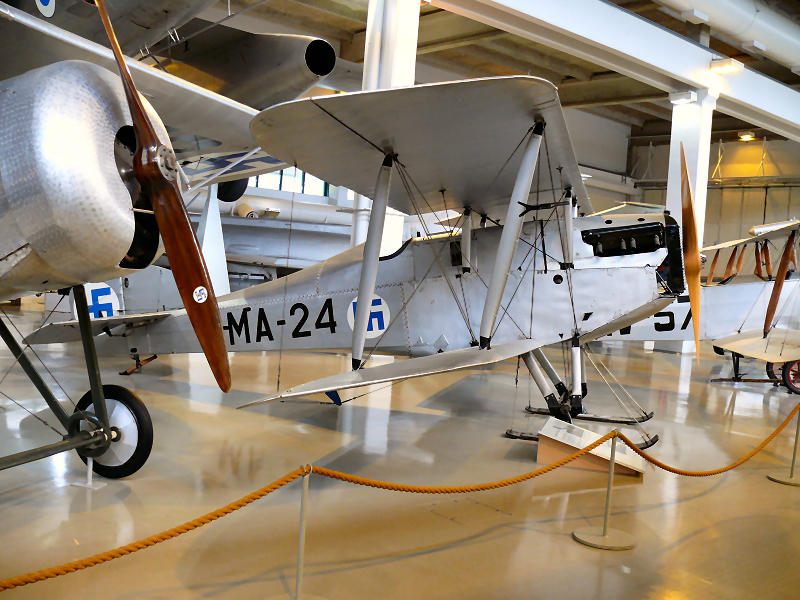 Fighter aircraft Martinsyde Buzzard in Aviation Museum of Central Finland